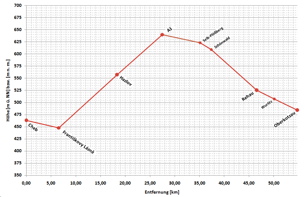 simplified altitude-profile of railway track Cheb–Oberkotzau